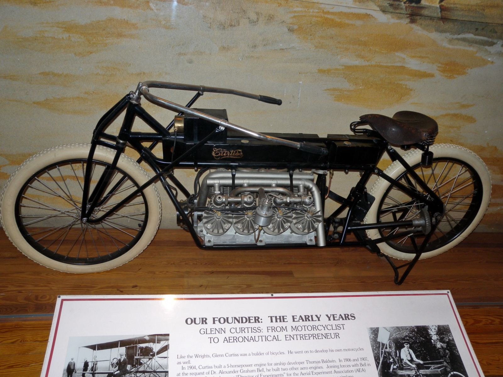 V-8 Motorcycle of Glenn Curtiss "Before achieving fame in aeronautics, Glenn Curtiss started his career with motorcycles. The early aviation community began to seek out Curtiss because of his growing reputation for designing powerful, lightweight motorcycle engines. In 1906 he designed his first V-8 engine in response to several requests from early aeronautical experimenters. As a manufacturer and racer of motorcycles, it was only natural for Curtiss to wonder how fast he could move on a motorcycle with his V-8. He instructed his workers to construct a frame that could support the weight of the engine. The Curtiss V-8 was air-cooled, producing approximately 30 to 40 horsepower at 1,800 rpm. The motorcycle used direct drive because a conventional chain-and-belt transmission could not withstand the power of the massive engine. Curtiss took the motorcycle to the Florida Speed Carnival at Ormond Beach in January 1907. He recorded a record-setting speed of 218 kph (136 mph) during his run. He was dubbed "the fastest man on Earth."" cliff1066 [1]